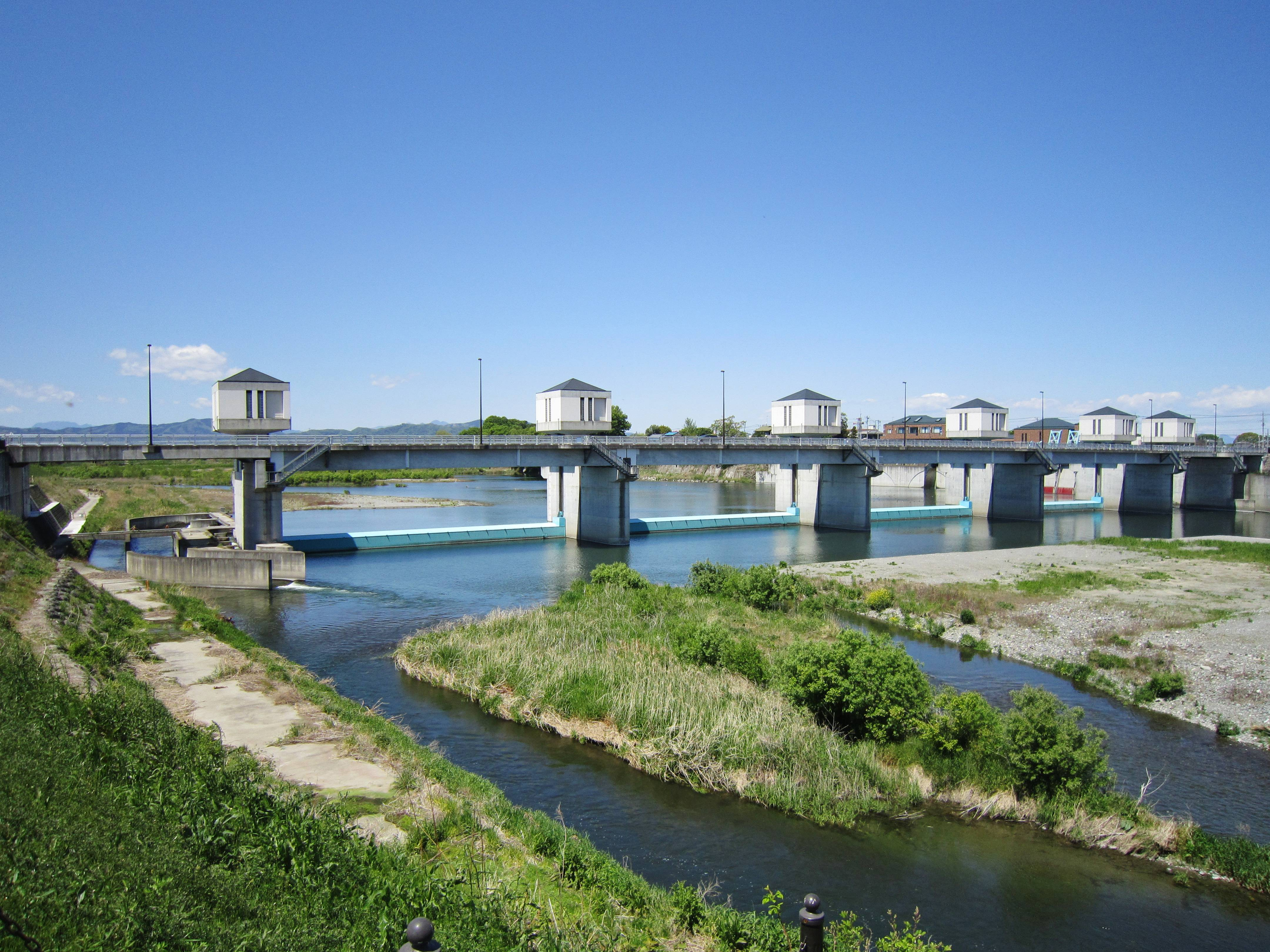 Rokuzeki Head Works.